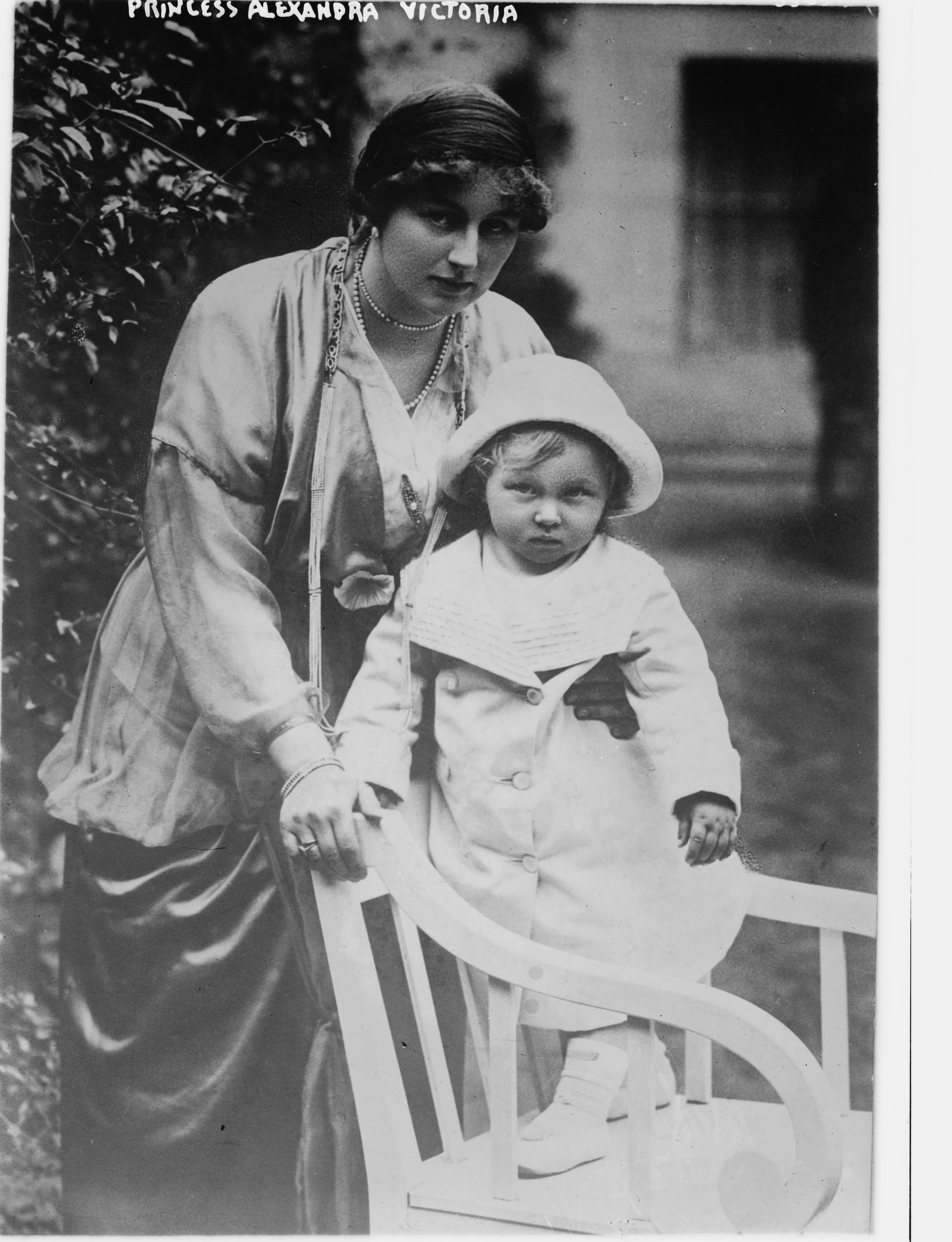 Princess Alexandra Victoria of Schleswig-Holstein-Sonderburg-Glücksburg, later Princess August William of Prussia.